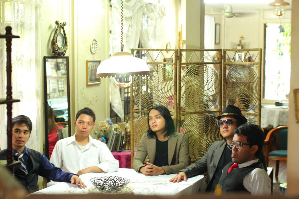 Second album Pictorial